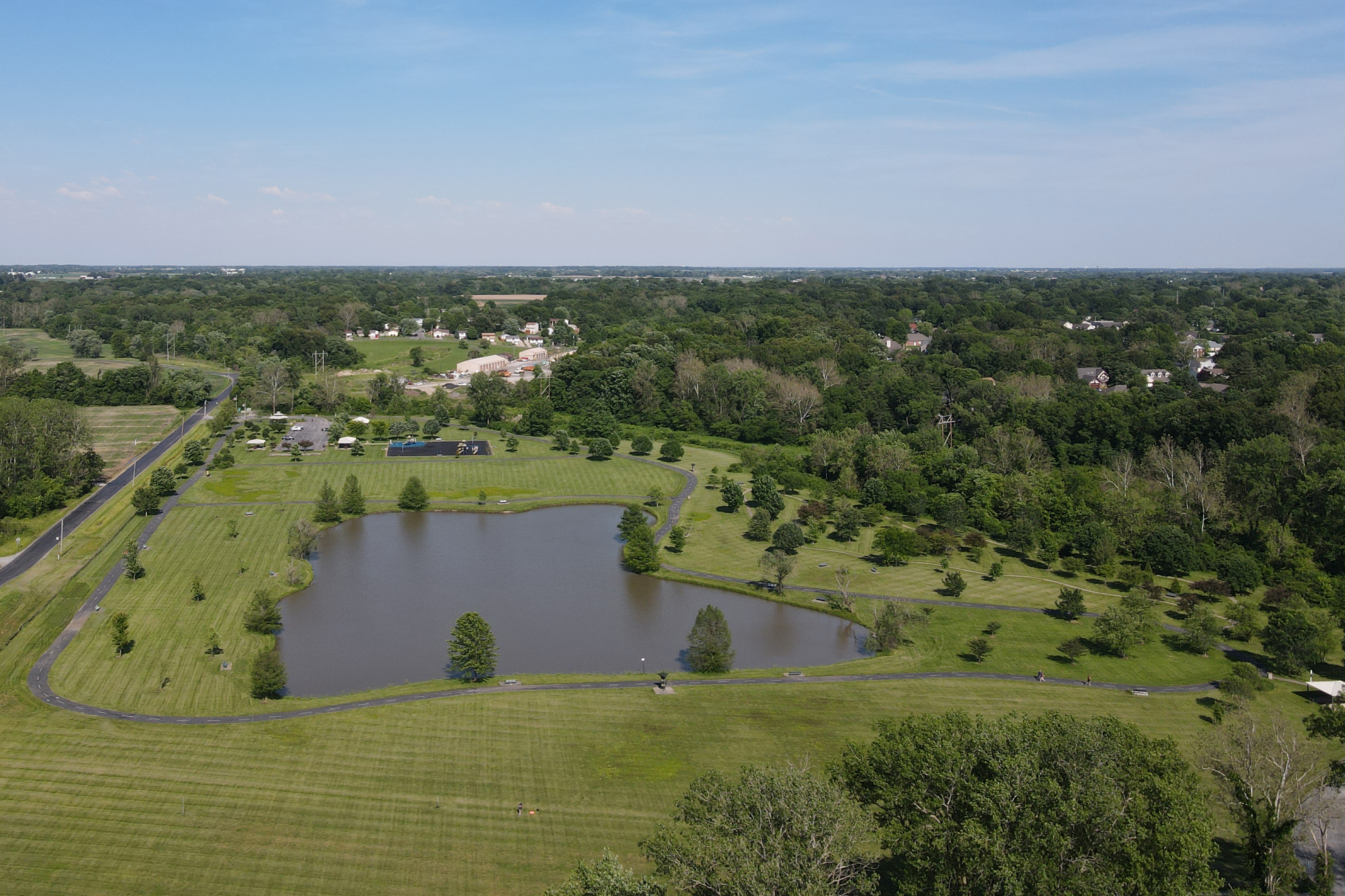 This is an aerial shot of Steve Bryant Park in Bethalto, IL USA